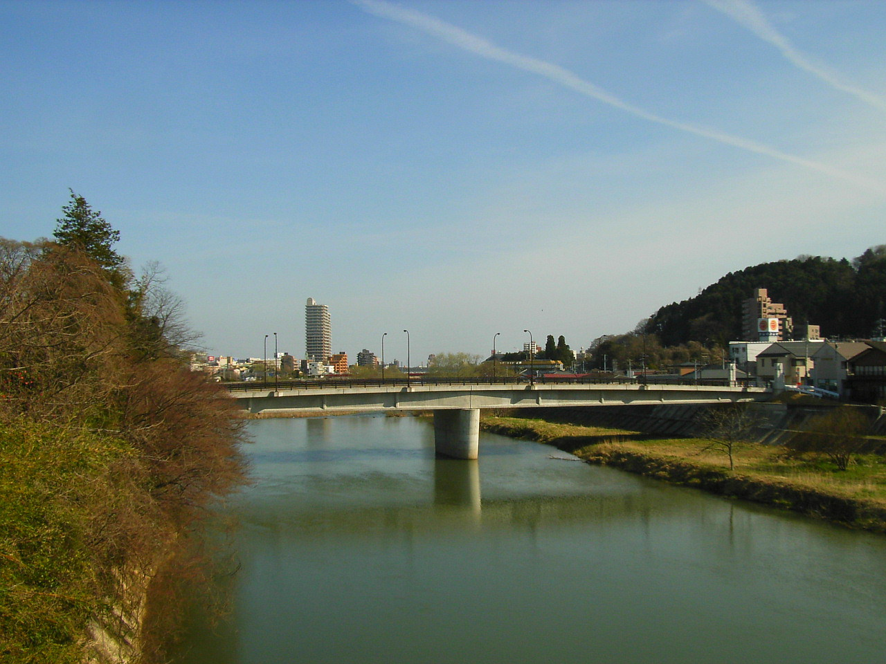 Atago Bridge of the Hirose River. Sendai, Miyagi prefetcure, Japan.